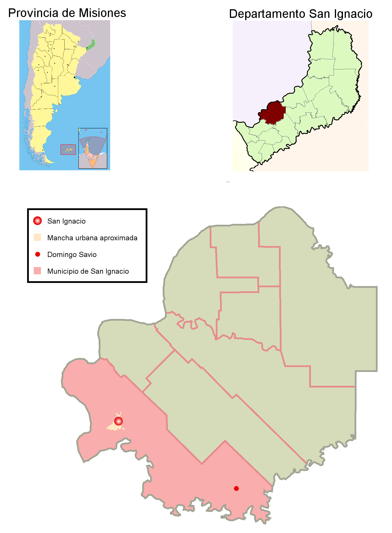 A map showing municipio of San Ignacio in San Ignacio departament, Misiones province, Argentina. Also shows San Ignacio town location, its urban sector and Domingo Savio town location. Created with GIMP.